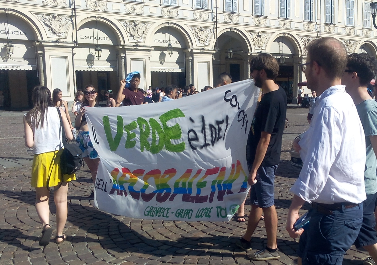 Greenpace Italia, Torino Pride 2017